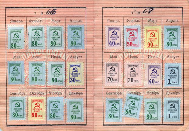 Trade-union stamps of the USSR on the trade-union card